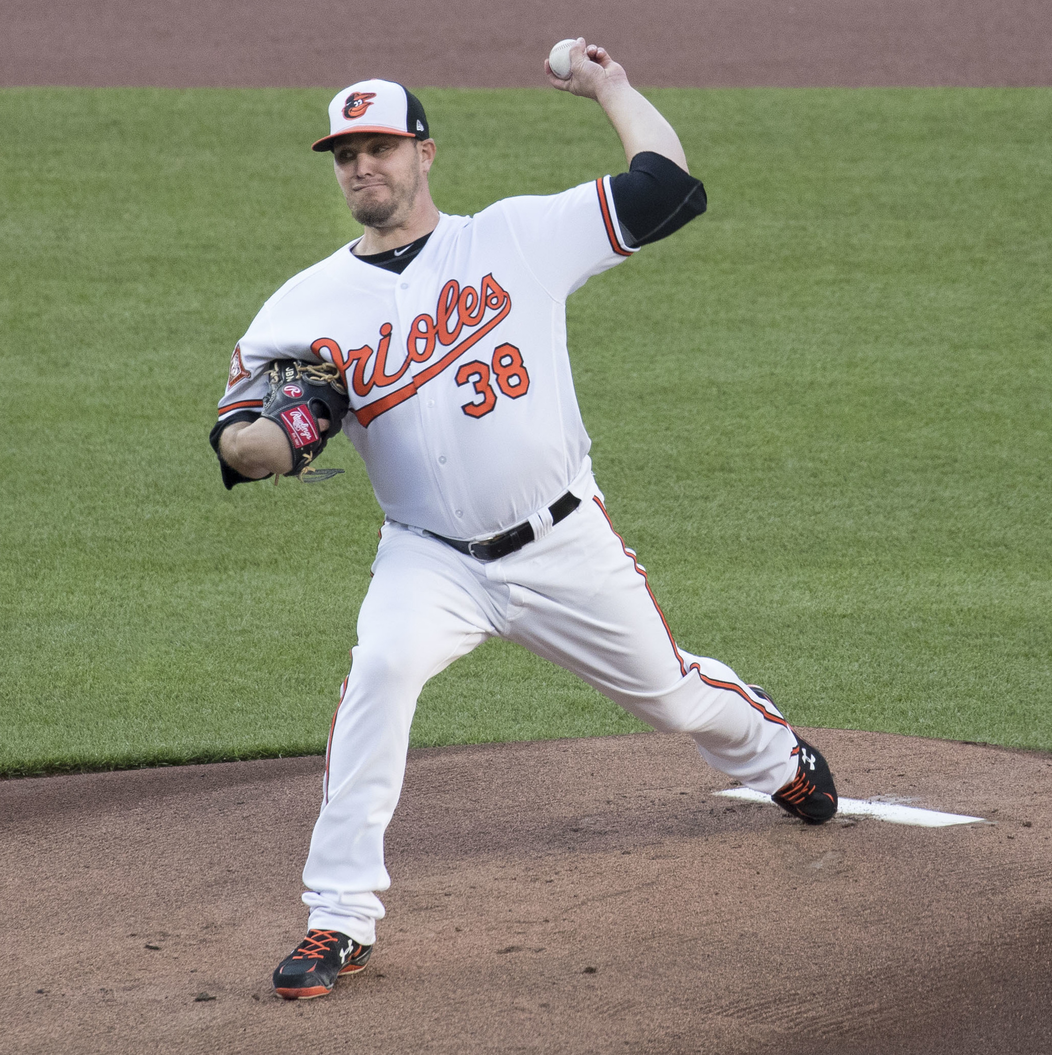 Starting pitcher Wade Miley of the Baltimore Orioles during a game against the Pittsburgh Pirates at Oriole Park at Camden Yards on June 7, 2017 in Baltimore, Maryland.